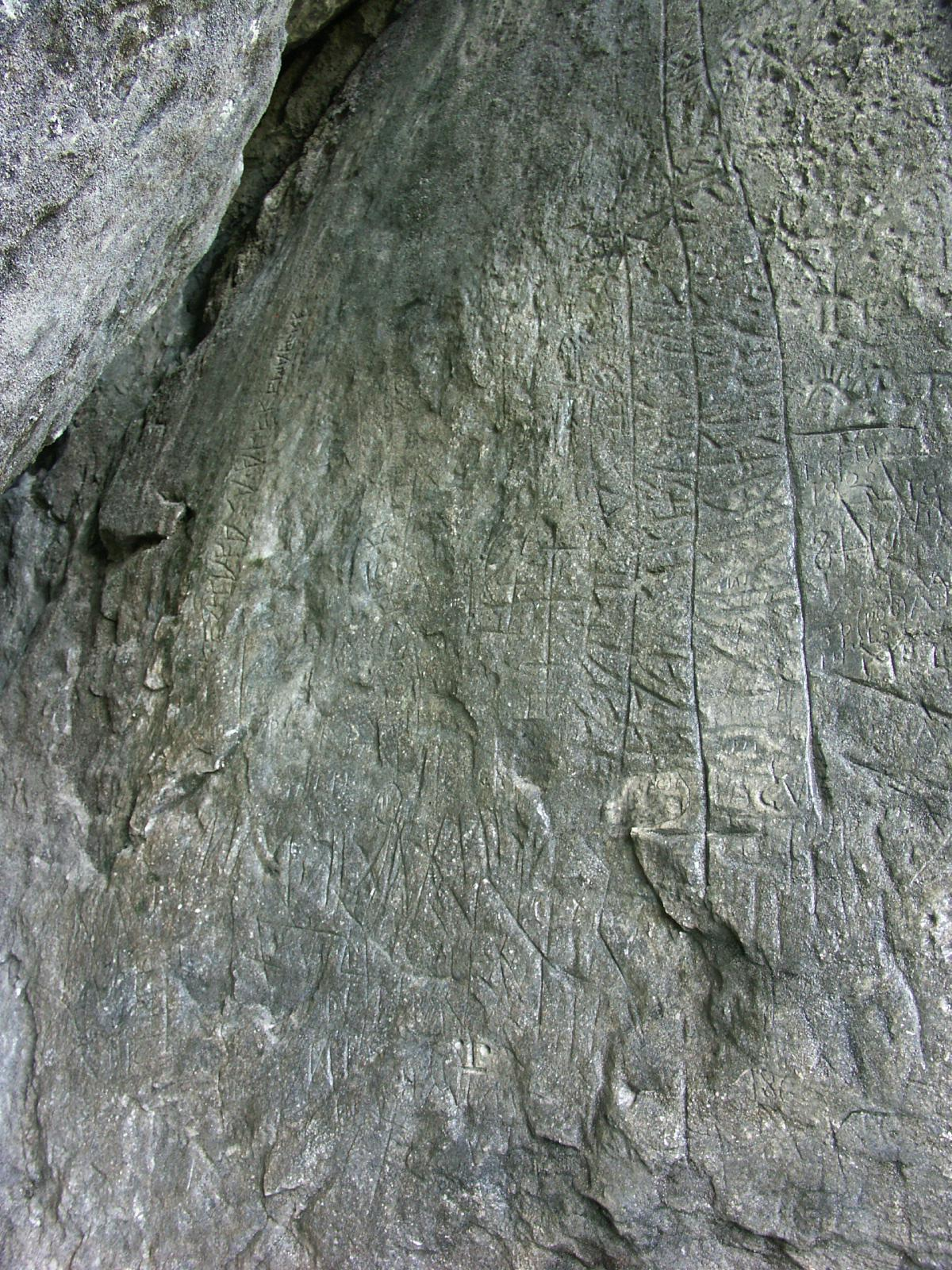 Raetic inscriptions on rocks in Austrian near mountain Schneidjoch